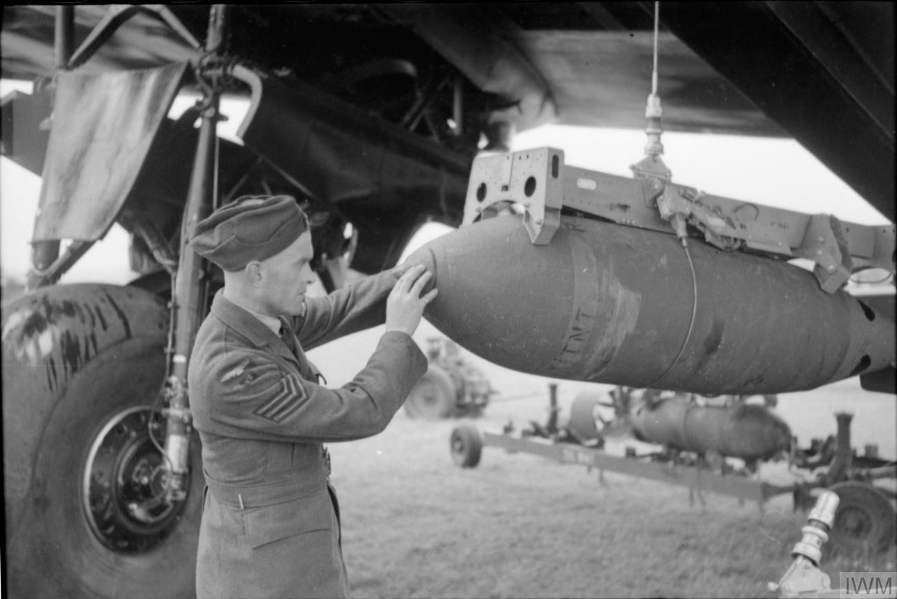 A sergeant armourer checks the fuze of a 1,000-lb GP bomb before it is winched by hand into the bomb bay of a Short Stirling of No. 218 Squadron RAF at Downham Market, Norfolk.